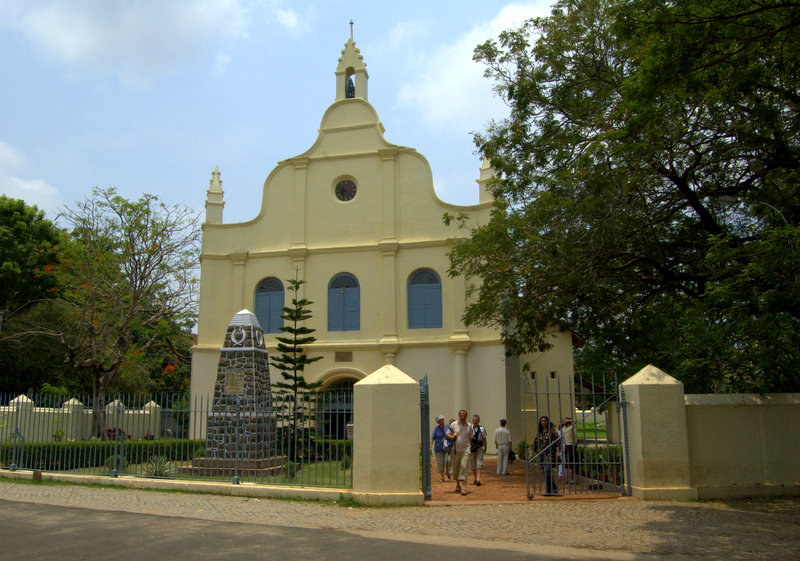 St. Fracis Church, For Cochin, Kerala, INDIA